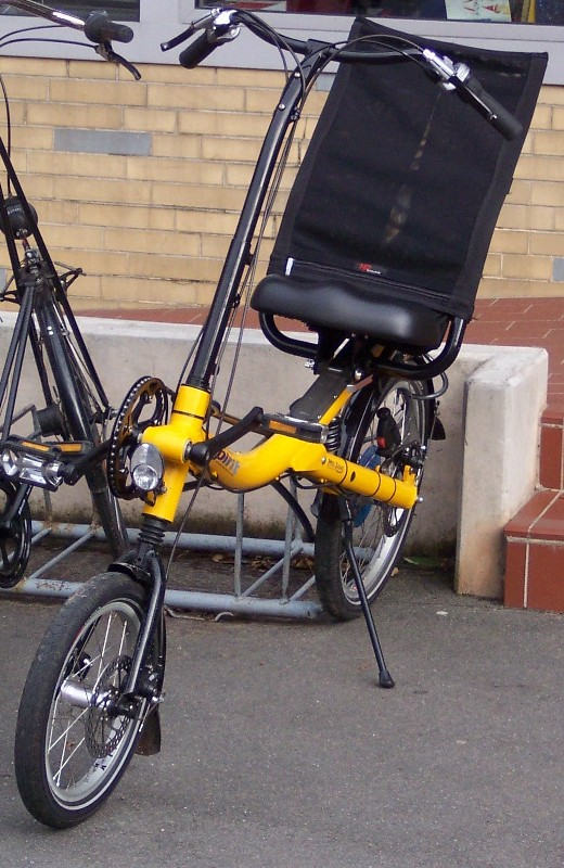 compact long wheelbase (CLWB) comfort bike “Spirit” from HP Velotechnik